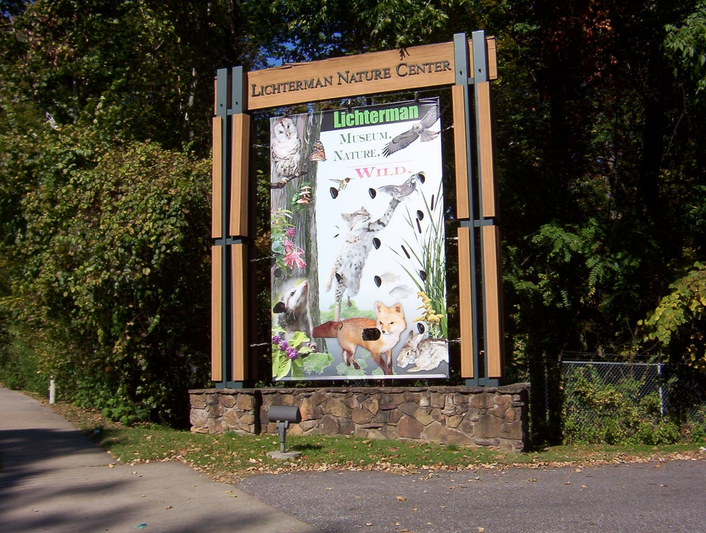 Sign at the entrance of the Lichterman Nature Center in Memphis, Tennessee. I made the photo myself, feel free to use it.